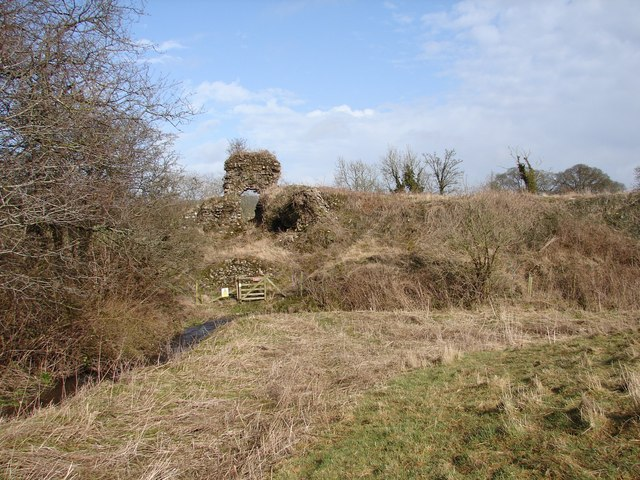 Buittle Castle Buittle Castle (c.1230): Ruins of a motte-and-bailey castle of Scottish Royal status. Detailed archaeological excavations have been undertaken in recent years.